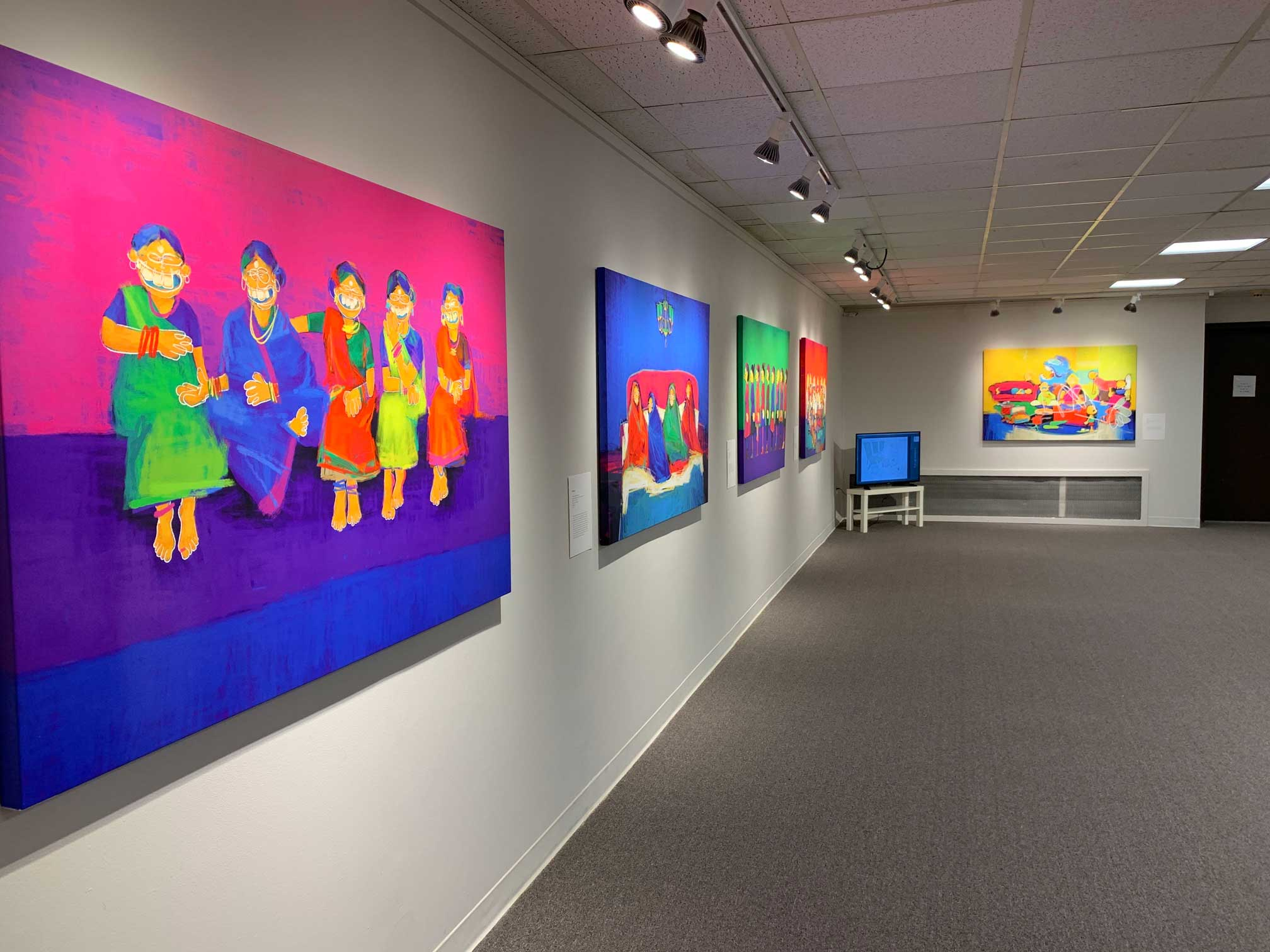 Installation view of Siddharth Choudhary's solo exhibition Of No Fixed Address at ArtSpace Maynard. iPad and computer drawings rendered as pigmented canvas prints and videos.